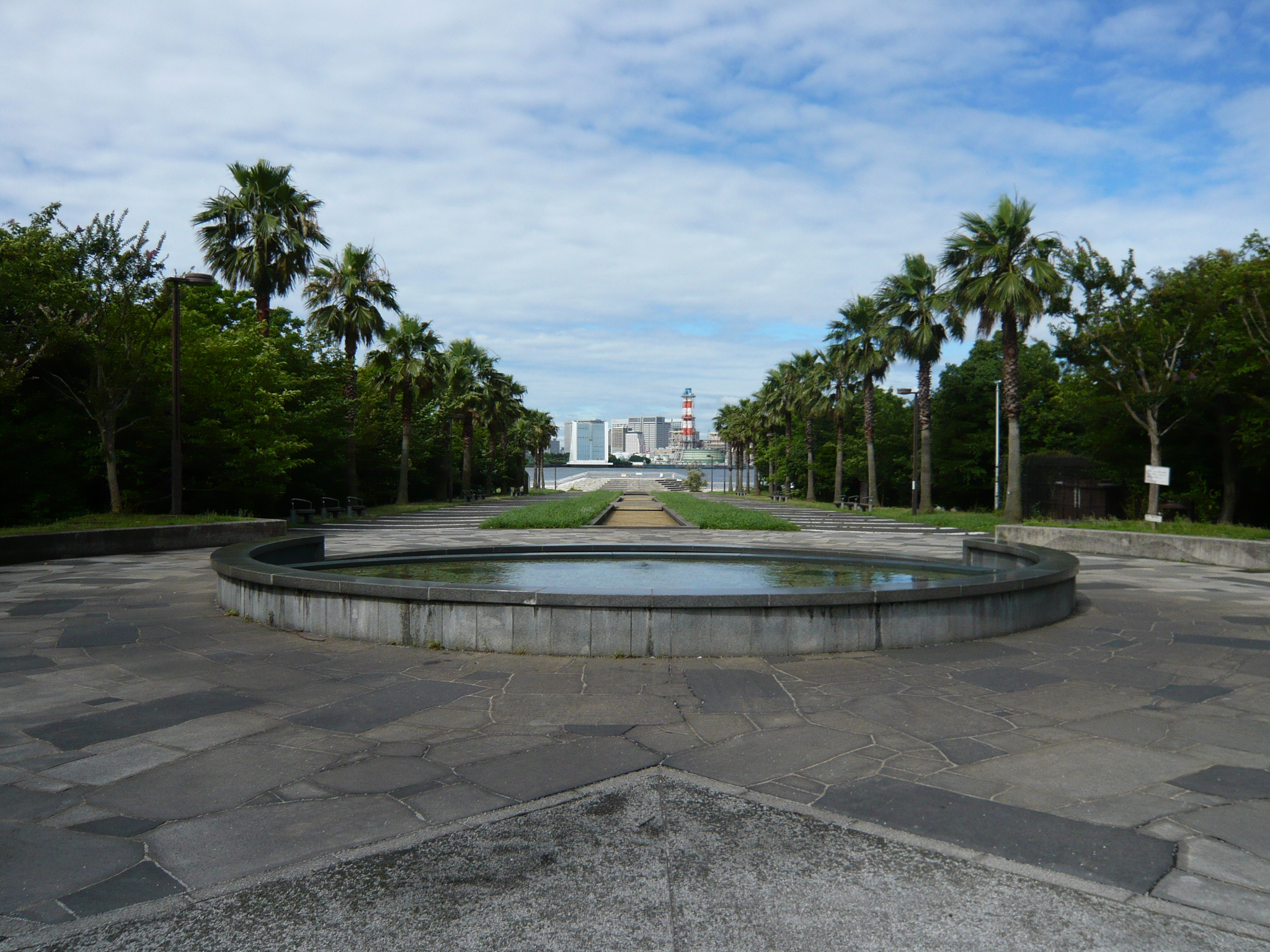 Shiokaze Park in Shinagawa-ku, Tokyo, Japan.